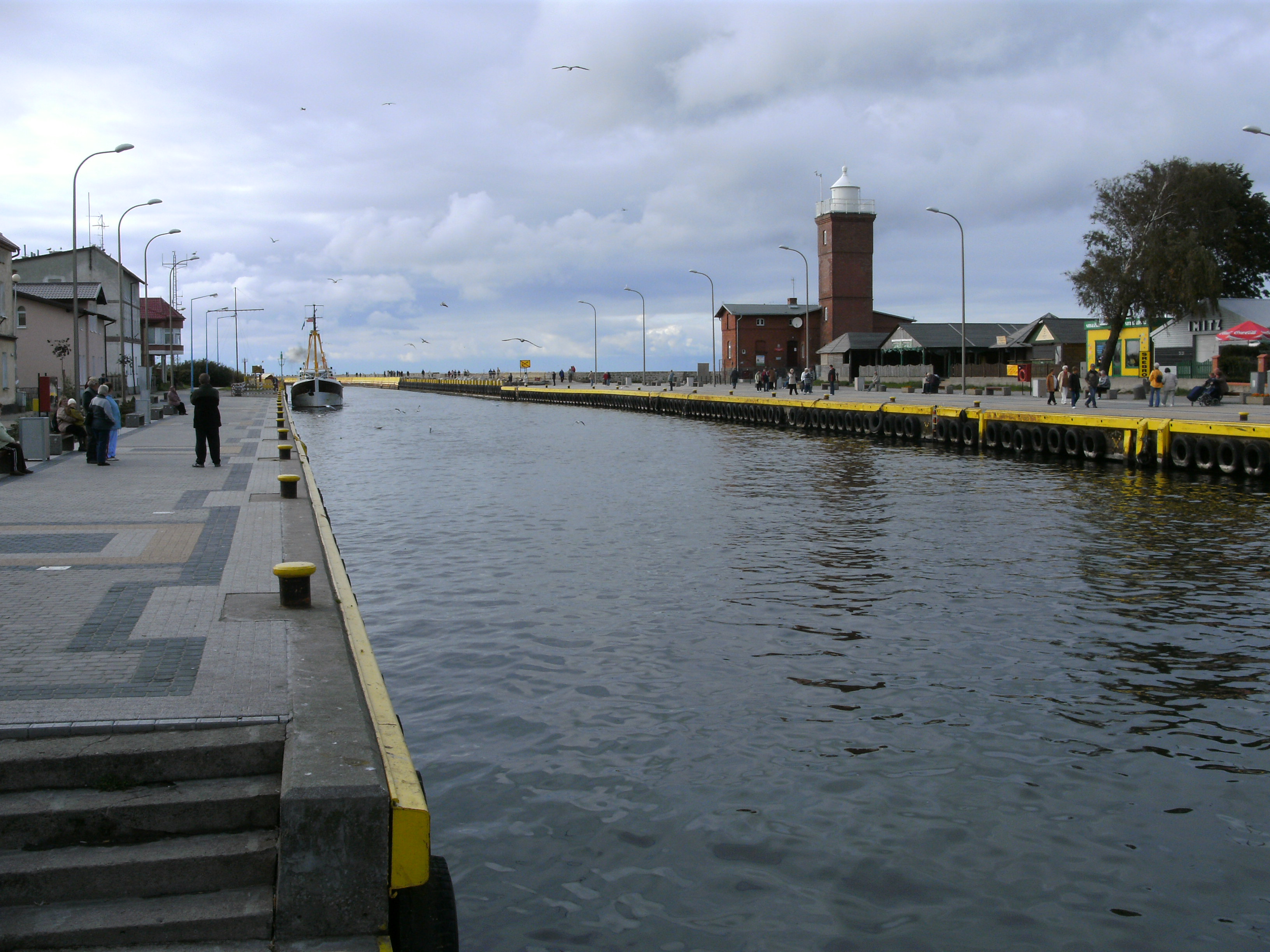 Entrance to Port of Darłowo